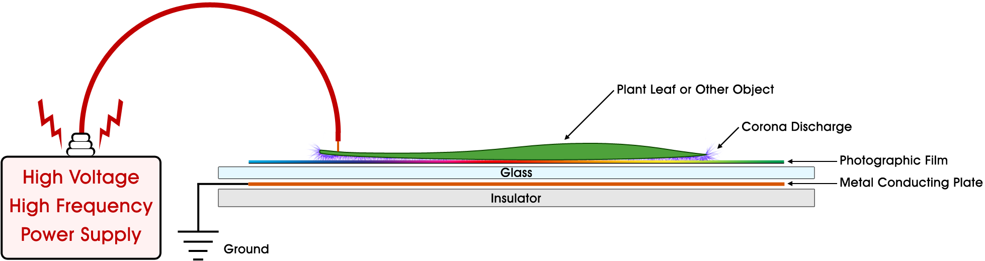 Graphic Depicting a Typical Kirlian Photography Setup (cross section)